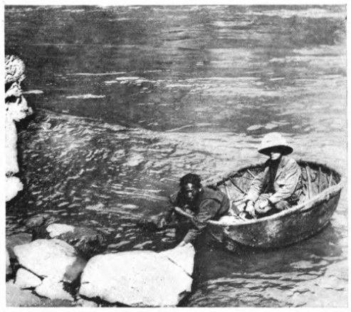 Zenas Loftis in a Coracle